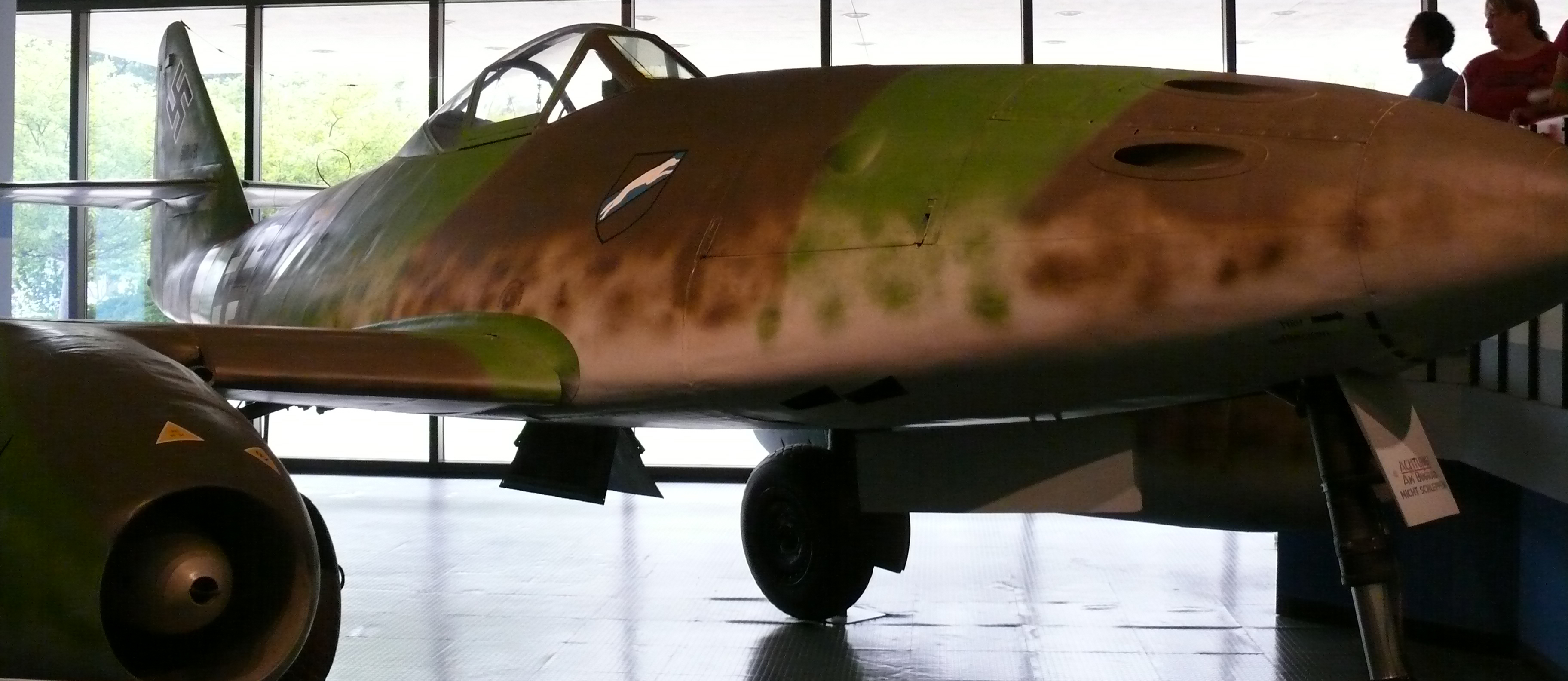 Me 262 in the collection of the National Air and Space Museum Washington DC The Messerschmitt Me 262 Schwalbe (Swallow) was the world's first operational turbojet fighter aircraft.It saw action starting in 1944 as a multi-role fighter/bomber/reconnaissance/interceptor warplane for the Luftwaffe. The fighter-bomber was also called Sturmvogel (Stormbird). The Me 262 had a negligible impact on the course of the war due to its late introduction